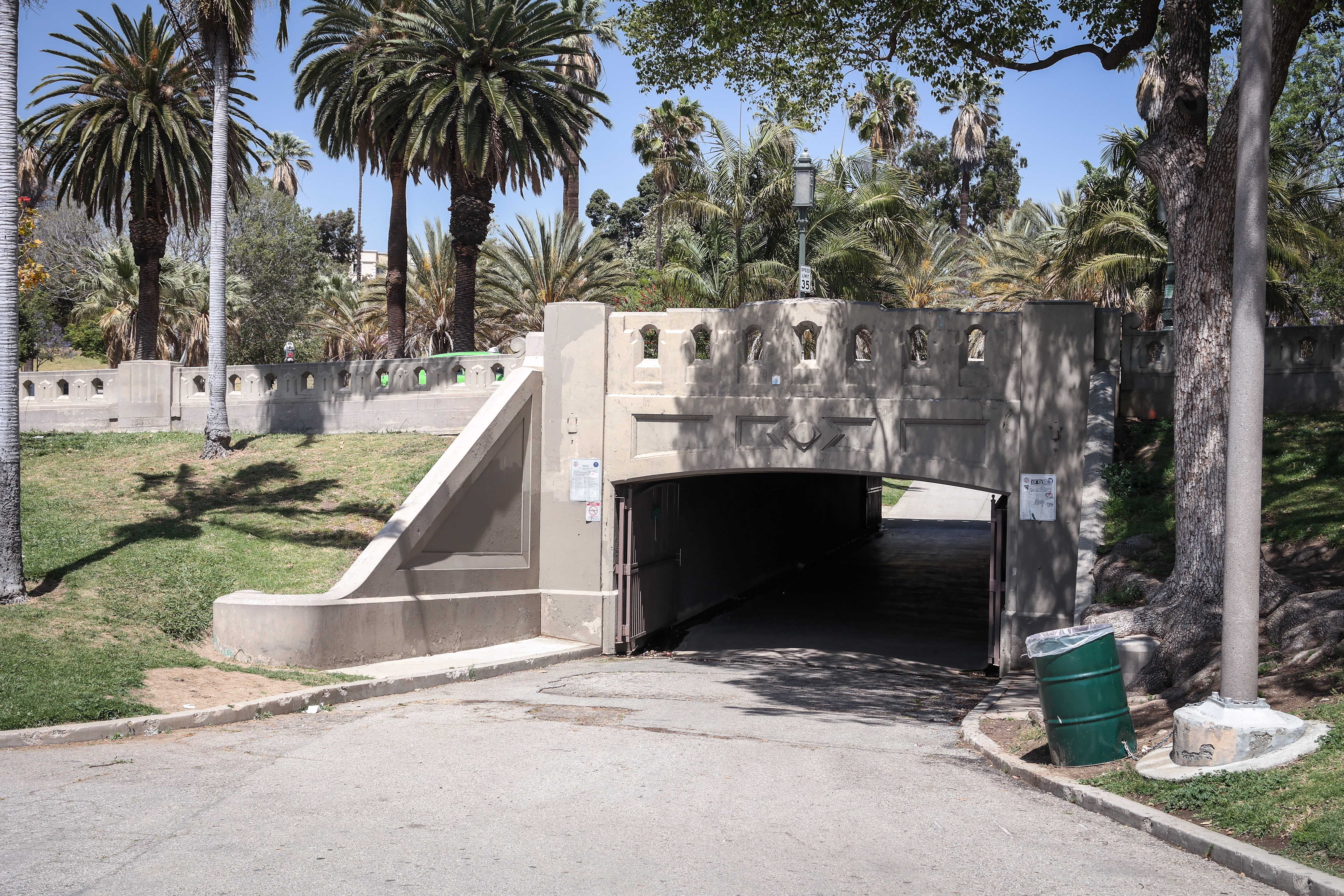 Wilshire Boulevard underpass at MacArthur Park in Los Angeles